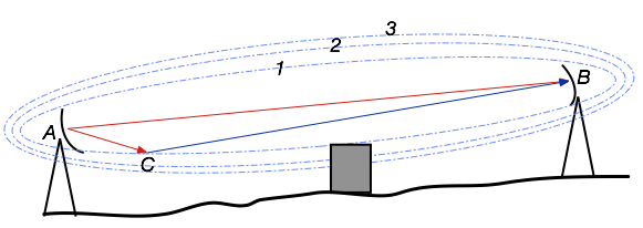 Fresnel zones are concentric ellipses centred on the direct transmission path. The 1st zone is the ellipse with chords 1/2 wavelength longer than the direct path.